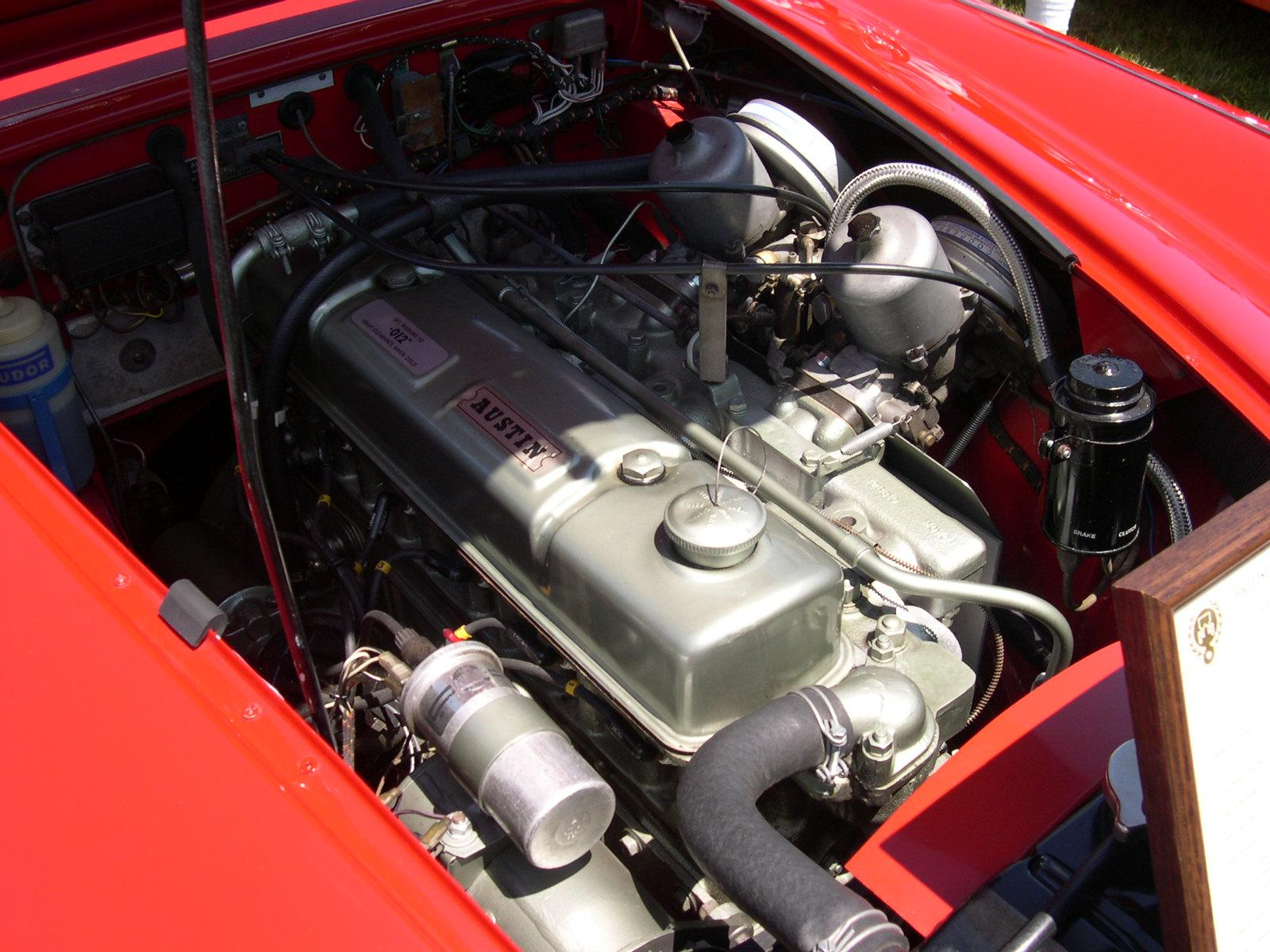 Austin C-Series engine in an Austin-Healey 3000 Mark II Source: Photographed at the Bay State Antique Automobile Club's July 10, 2005 show at the Endicott Estate in Dedham, MA by User:Sfoskett